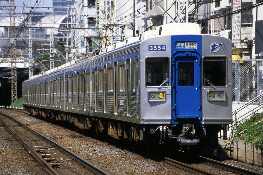 Semboku Rapid Railway 3000 series EMU set 3554